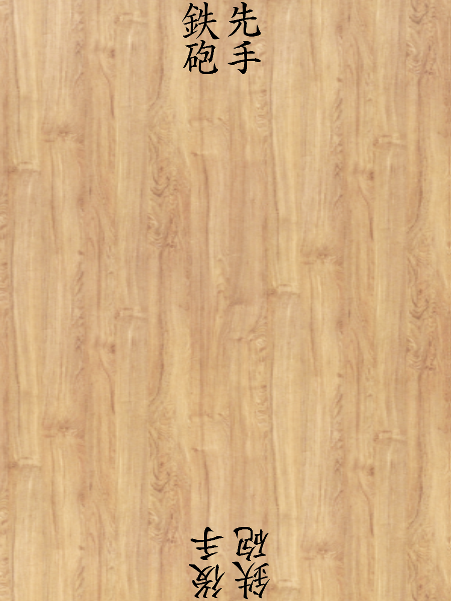 Board for saishō shōgi, a shōgi variant.